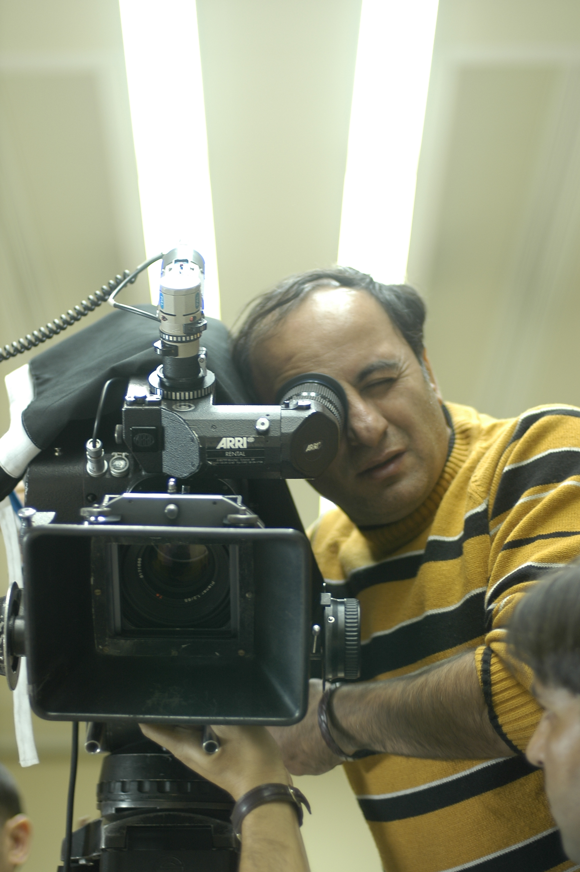 Iranian Director